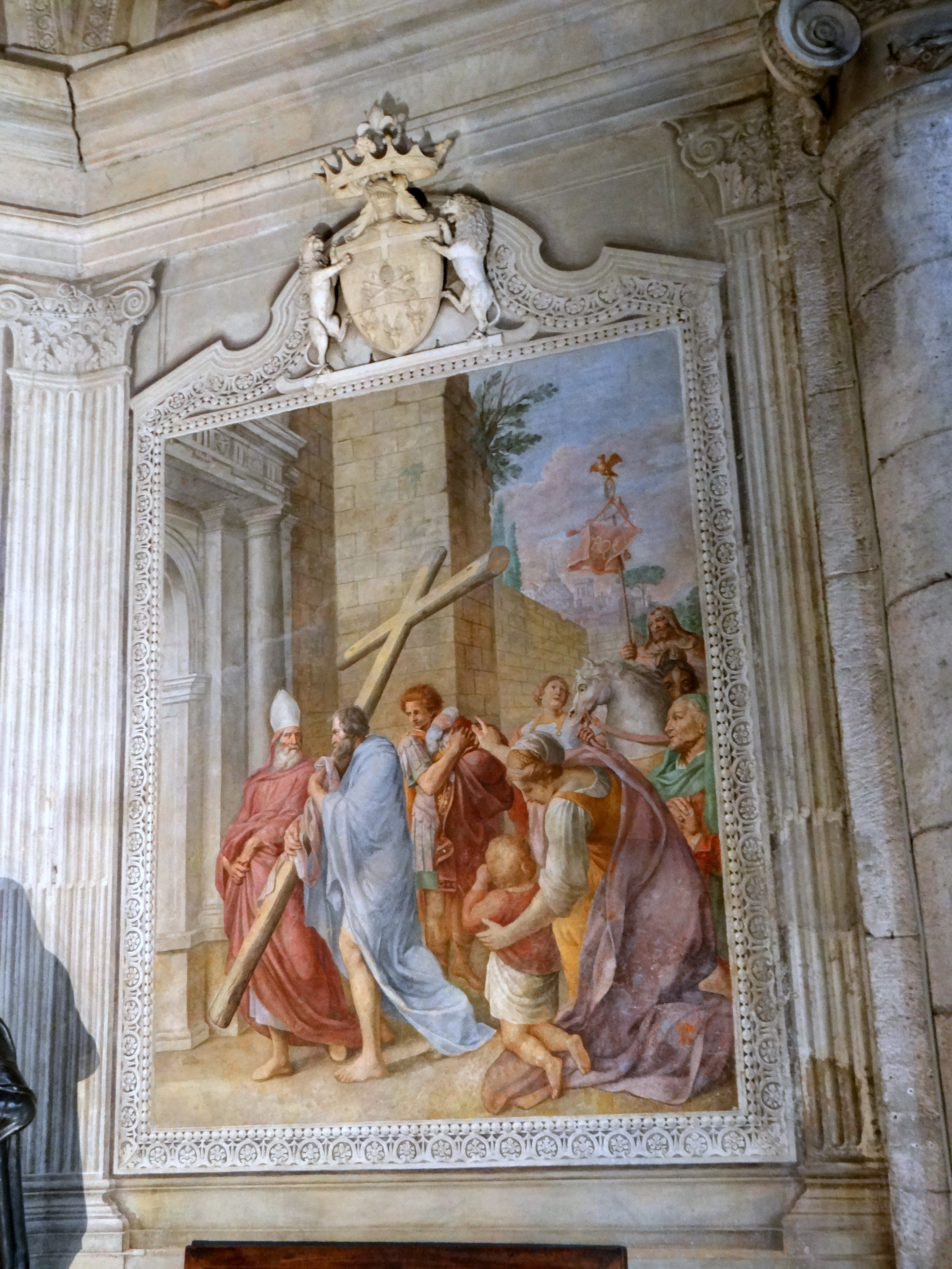 The Exaltation of the Cross by Pieter van Lint, Santa Maria del Popolo (after 1636)